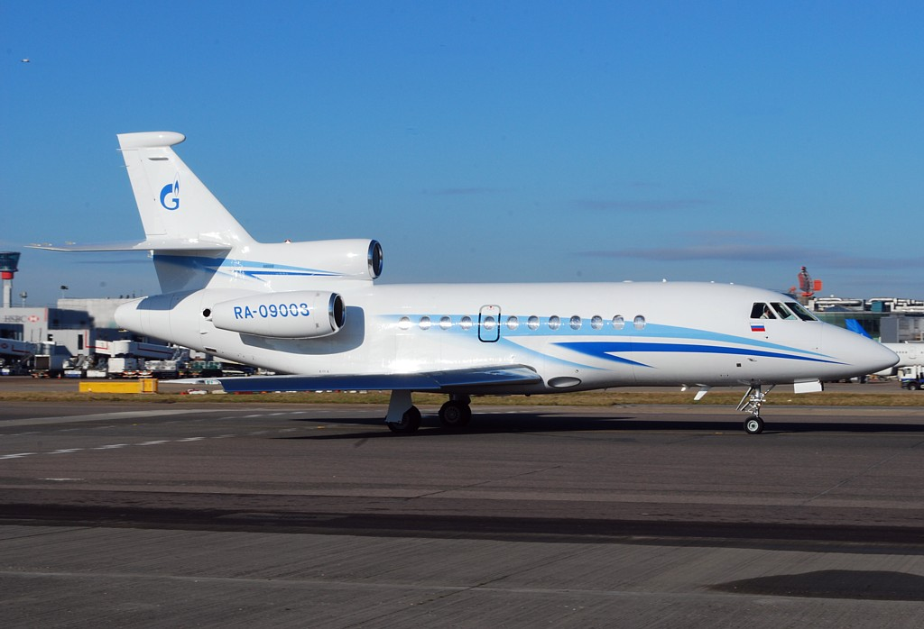 RA-09008 at Heathrow